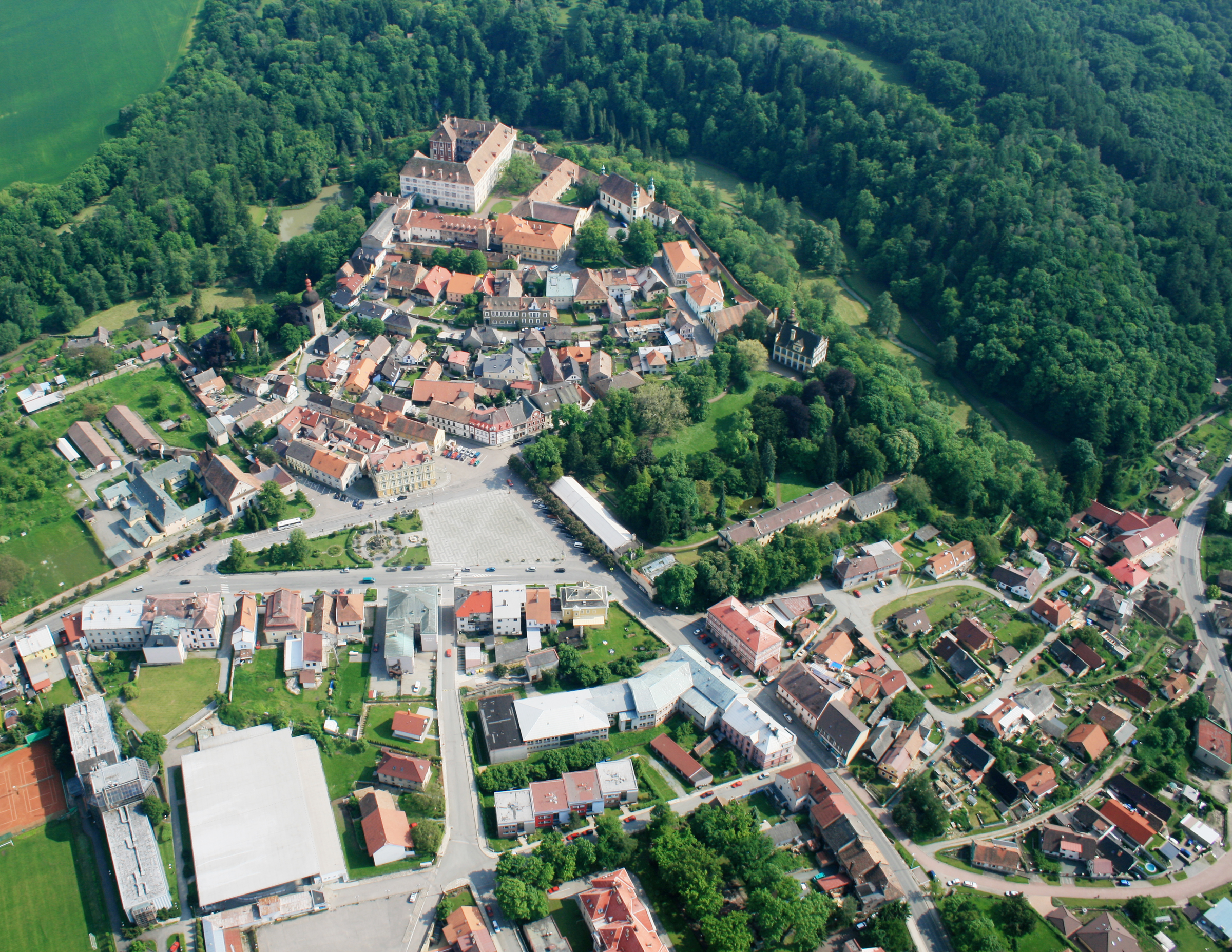 Opočno castle and centrum of Opočno town from air, eastern Bohemia, Czech Republic